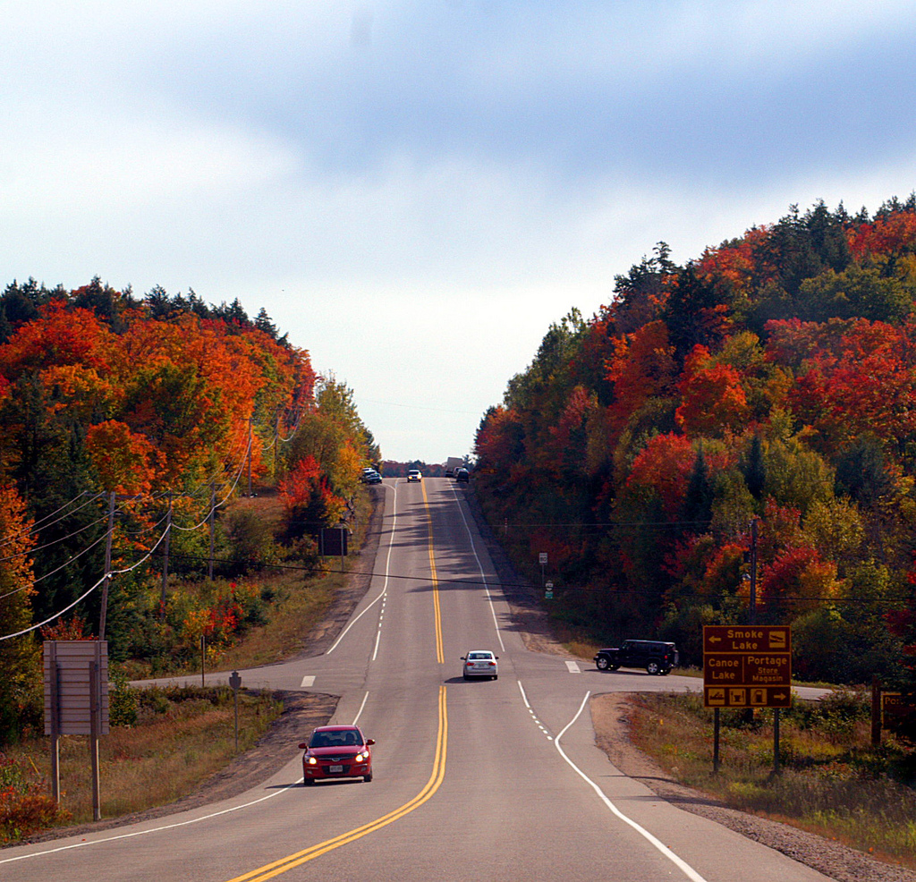 Ontario Highway 60 near Smoke Lake in Algonquin Provincial Park in the autumn